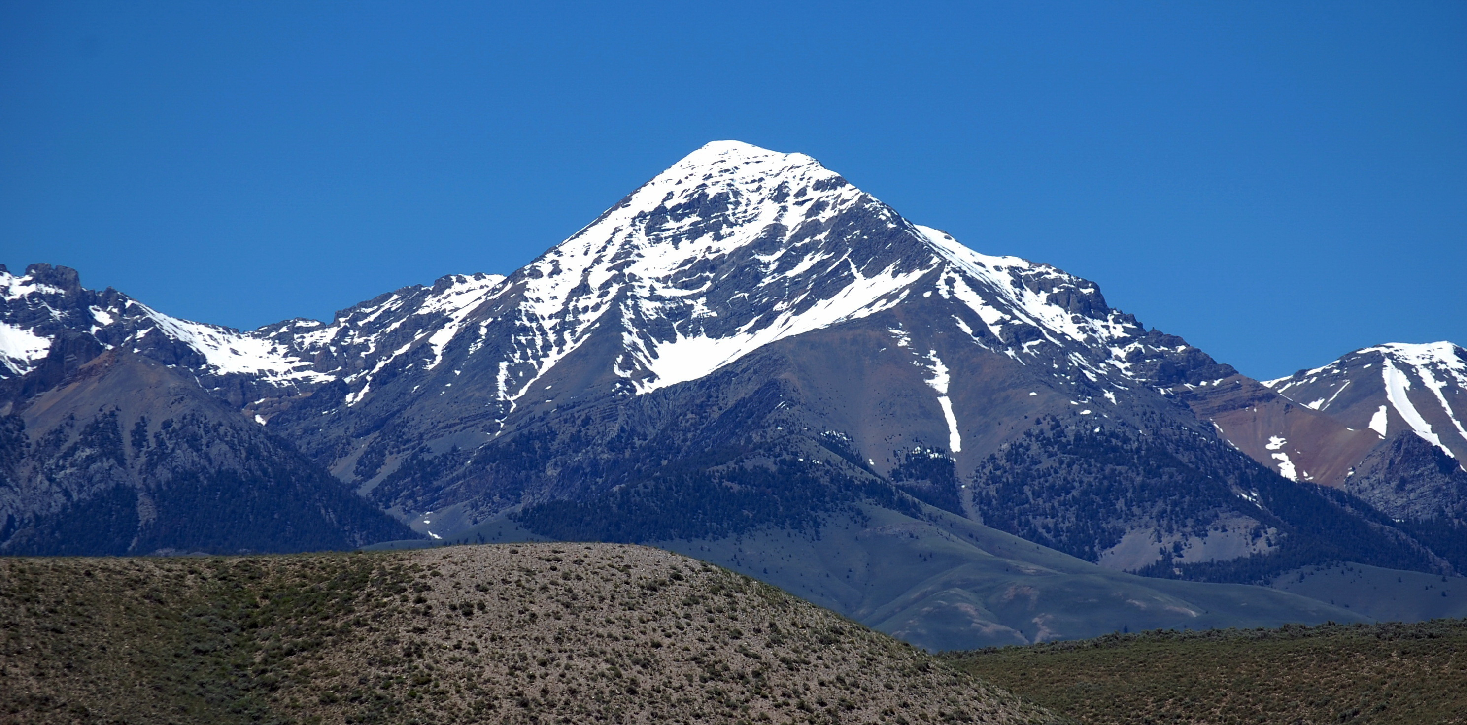 Along the Nez Perce National Historic Trail, Lemni Mountains near Birch Creek on Idaho Hwy 28. US Forest Service photo, by Roger Peterson